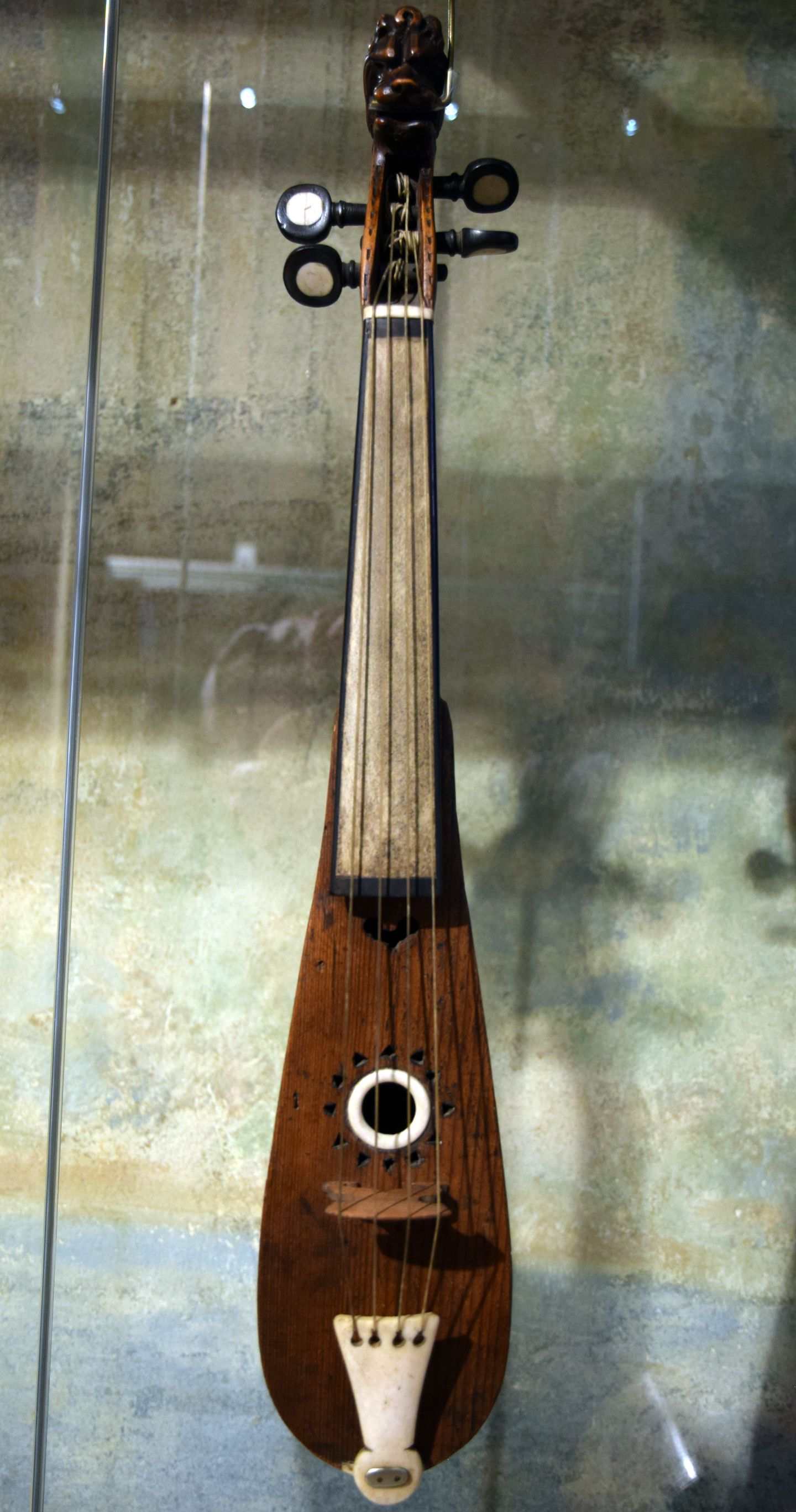 Kit violin made by Gregorius Carpp, Königsberg, 1693. Czech Museum of Music, Prague